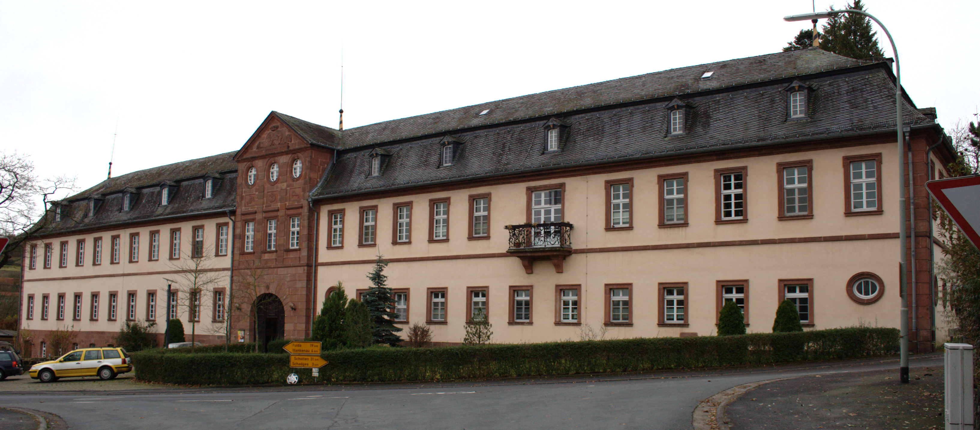 Castle in Stockhausen, Herbstein, Hessen, Germany